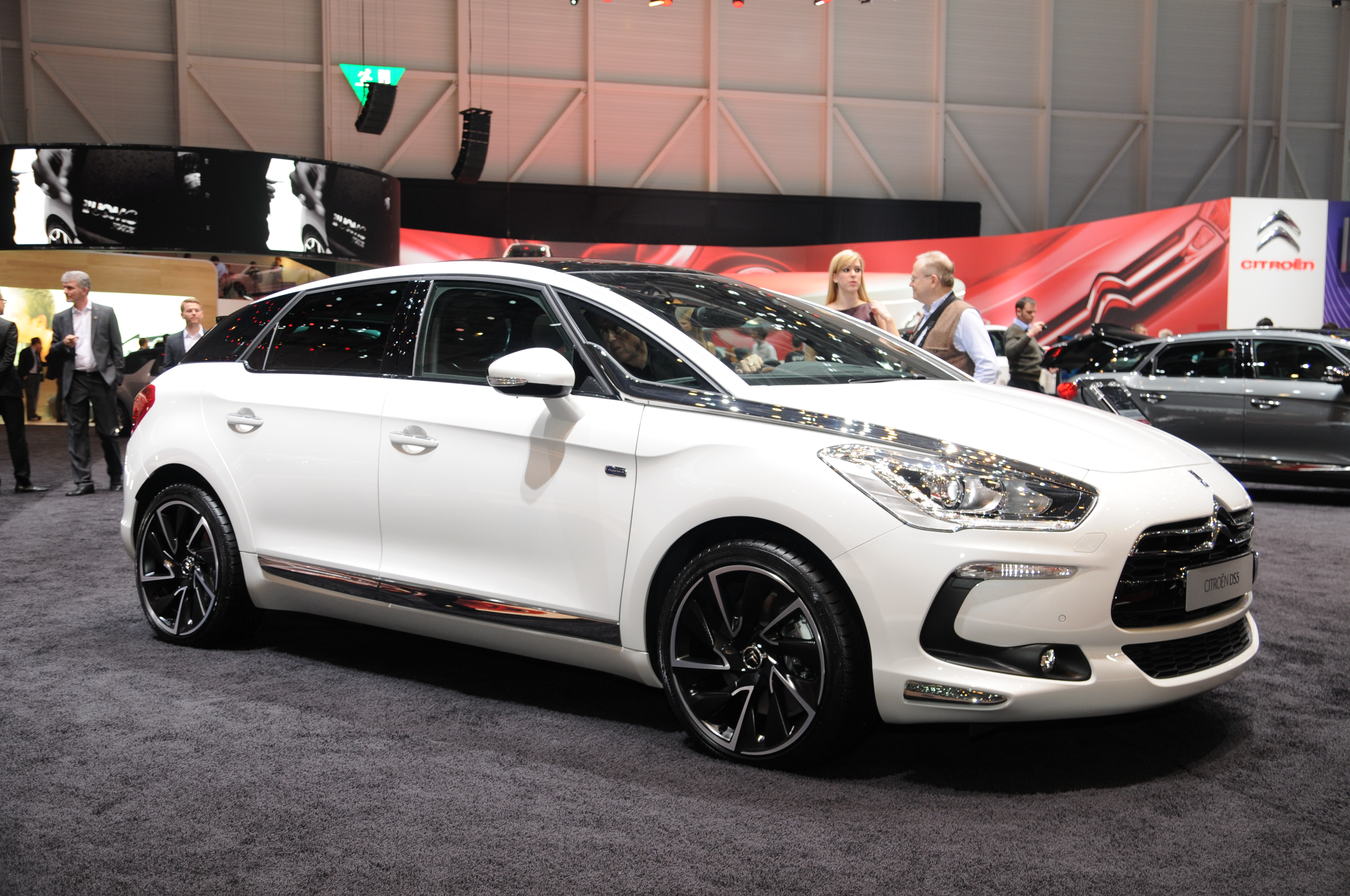 Citroën DS 5 at the Geneva Motor Show 2013 (photos taken on the first press day)